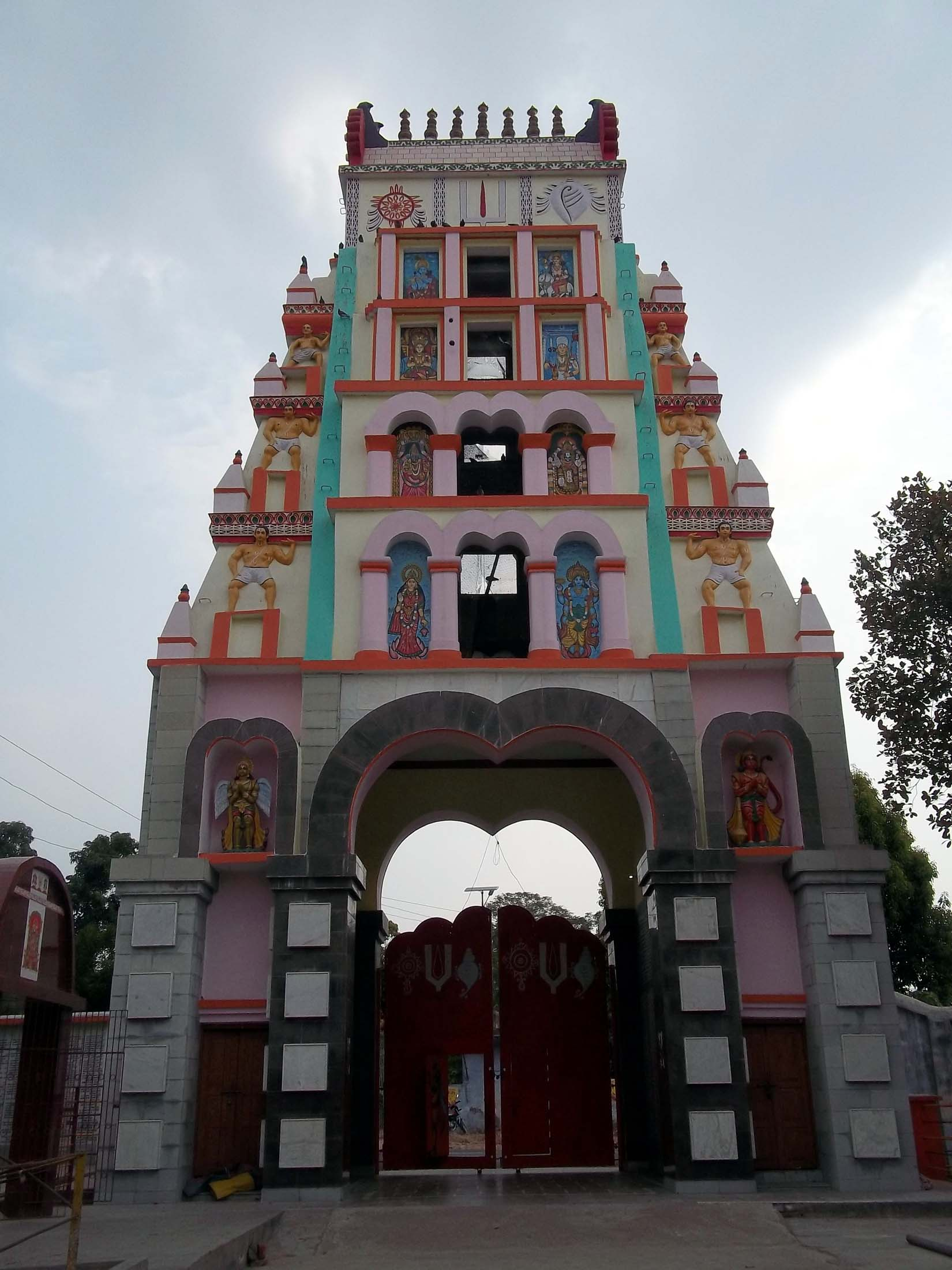 Sri Lakshmi Narayan Temple, Hulasganj, Jehanabad is a famous temple of Hindus. There are fascinating idols of God Narayan and Goddess Lakshmi. There are some other idols of Lord Hanuman and Lord Garuda.